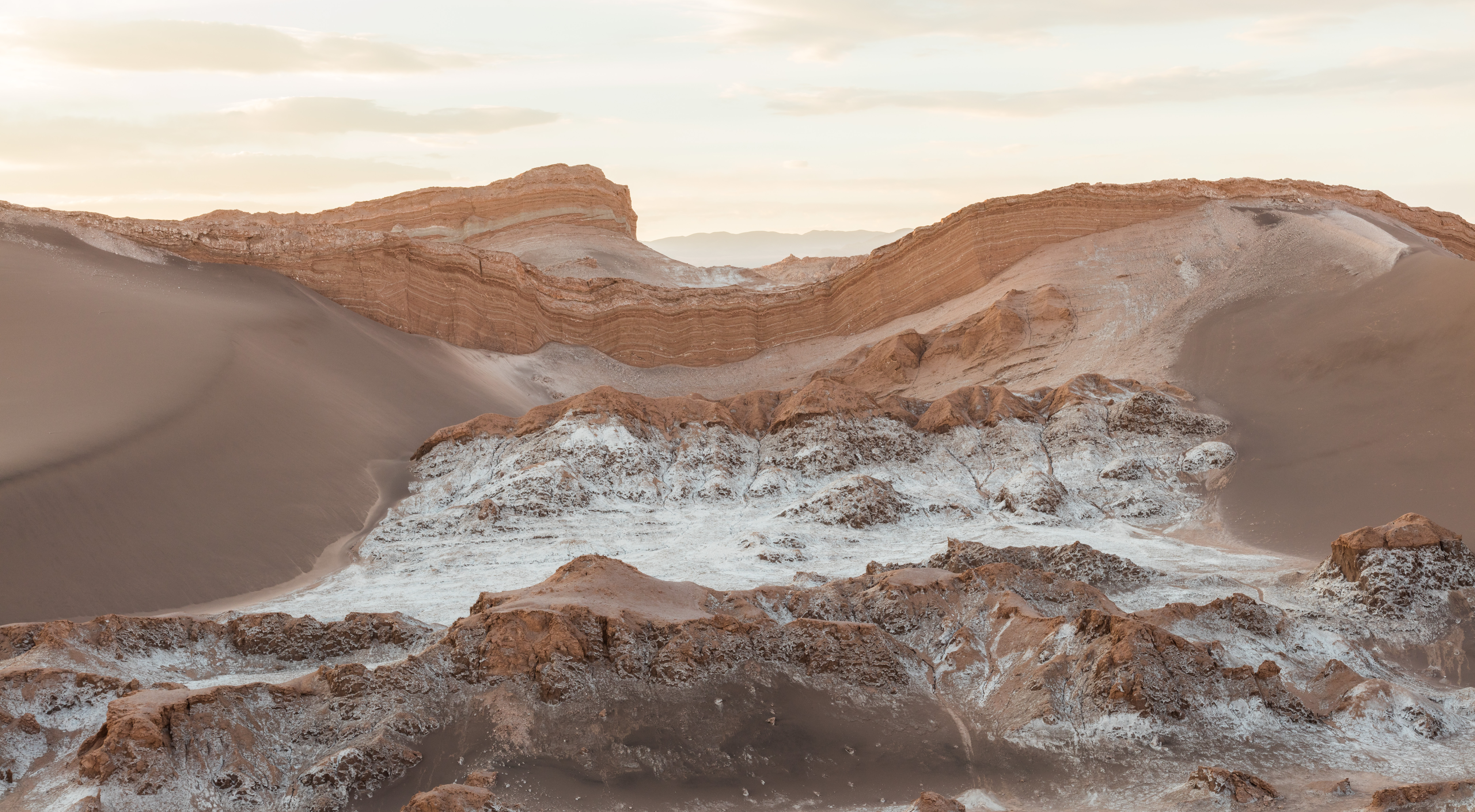 Valle de la Luna, San Pedro de Atacama, Chile